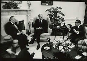 The photo contact sheet, identified as A8922 by the White House Photographic Office (WHPO), is housed at the Gerald R. Ford Presidential Library, a branch of the National Archives and Records Administration (NARA). This file is a 200 dpi photo contact sheet having images from roll of film A8922 of the August 9, 1974 - January 20, 1977 Gerald R. Ford White House Photographic Office Series A0001-A9999 and B0001-B2886 photographs. The date on the photo contact sheet is the date the roll of film was processed, not necessarily the date the photographs were taken. See table below for additional details.